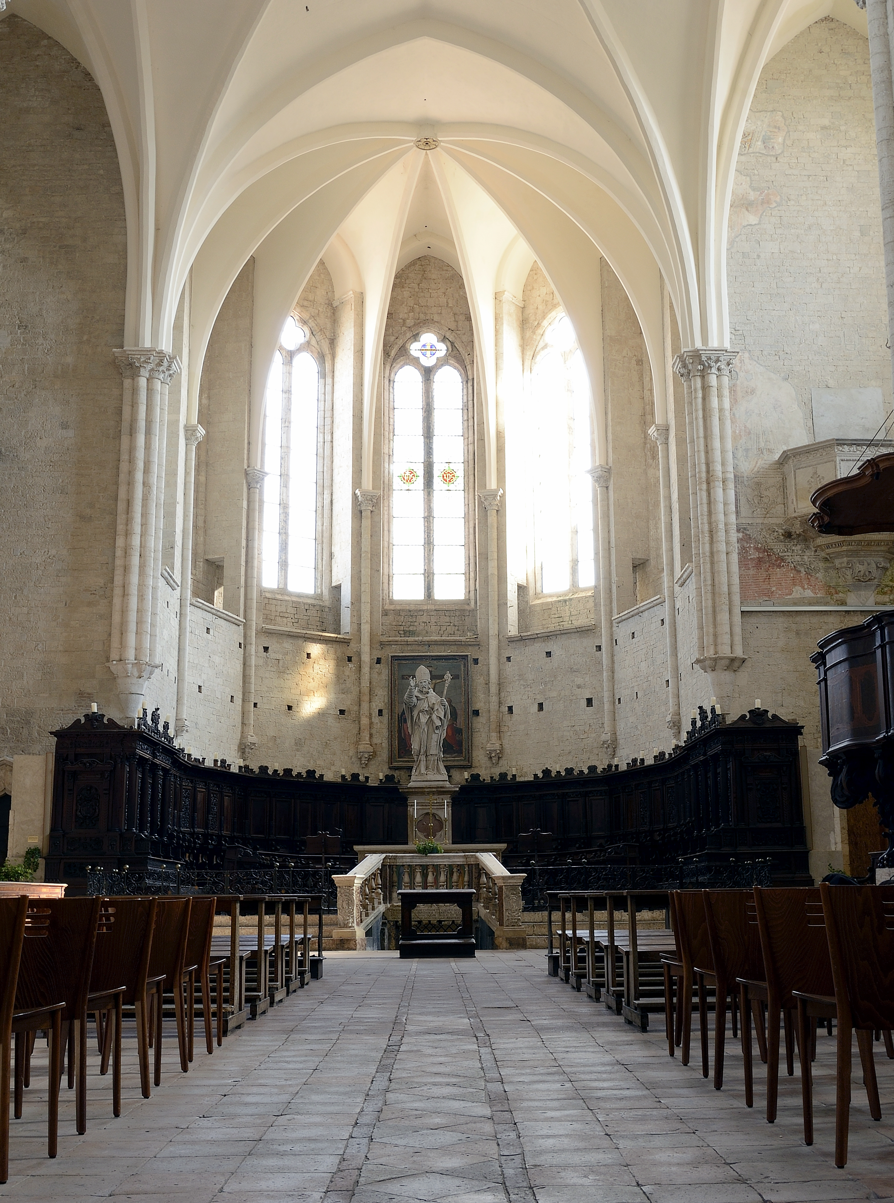 Internal st. Fortunato church of Todi